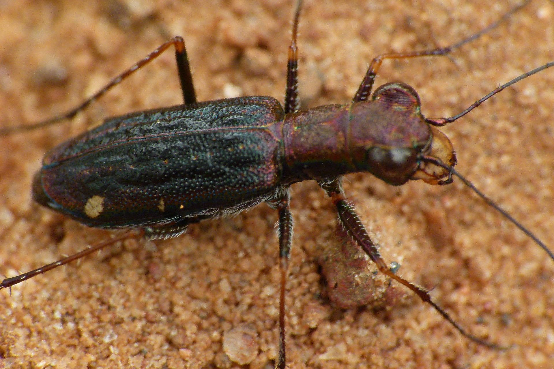 Cicindela (Jansenia) dasiodes Acciavatti & Pearson 1989